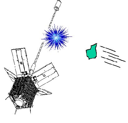 NASA'S illustration about the collision of CERISE (communication satellite) with a piece of fragmentation debris from an Ariane 1 rocket body in July 24, 1996. Which broke the 6 meter long stabilization boom